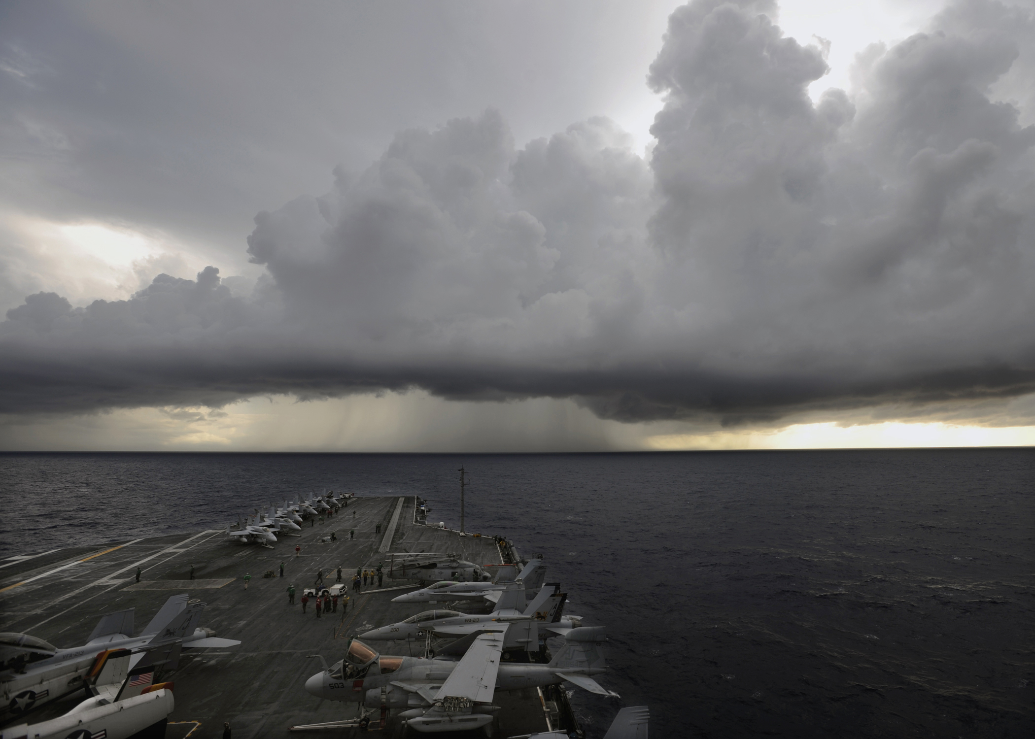 ATLANTIC OCEAN (July 24, 2008) The aircraft carrier USS Theodore Roosevelt (CVN 71) prepares for flight operations under stormy skies. The Theodore Roosevelt Carrier Strike Group is participating in Joint Task Force Exercise "Operation Brimstone" off the Atlantic coast . U.S. Navy photo by Mass Communication Specialist 2nd Class Nathan Laird (Released)